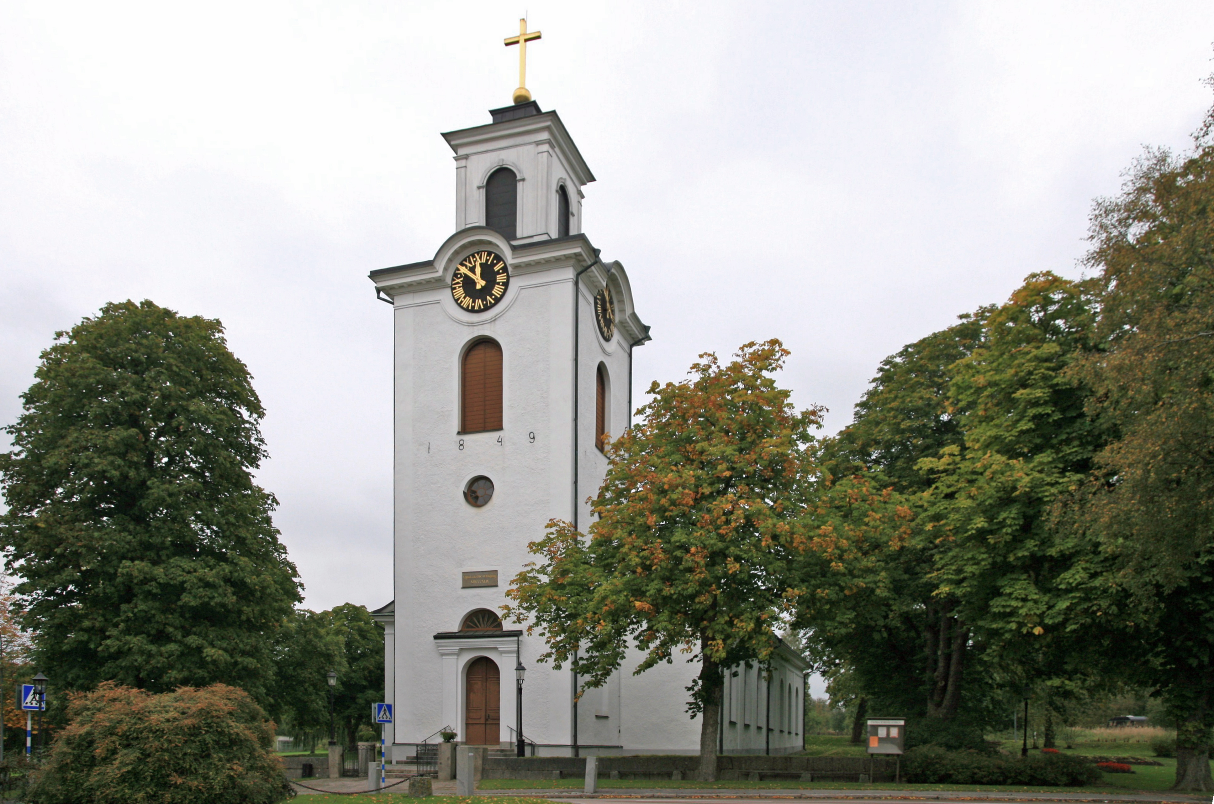 Östra Torsås Church. The church was built in 1847-49 in the Empire style, designed by Jacob Wilhelm Gerss. The inauguration took place in 1852 and förättades by Bishop Christopher Isac Heurlin.